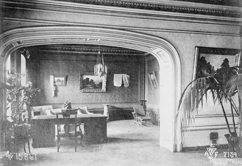 Room in Building at Ekaterinburg, Russia, That Was Occupied by the Czar While He Was Held a Captive. It Is Now the Office of General Gaida, Sommander of the Czech Forces, North Ural Front Room in the building in Ekaterinburg, Russia, that was occupied by the Tsar while he was held captive. It is now the office of General Gaida, CO of the Czechoslovakian Legion, North Ural front. 1918. Sokolov's investigation: No. 7. Shows the room occupied by Dr. Botkine [Botkin] and the Emperor's valet, Tchemodourov. In this photograph the sofa brought from Tzarskoe Selo is seen.